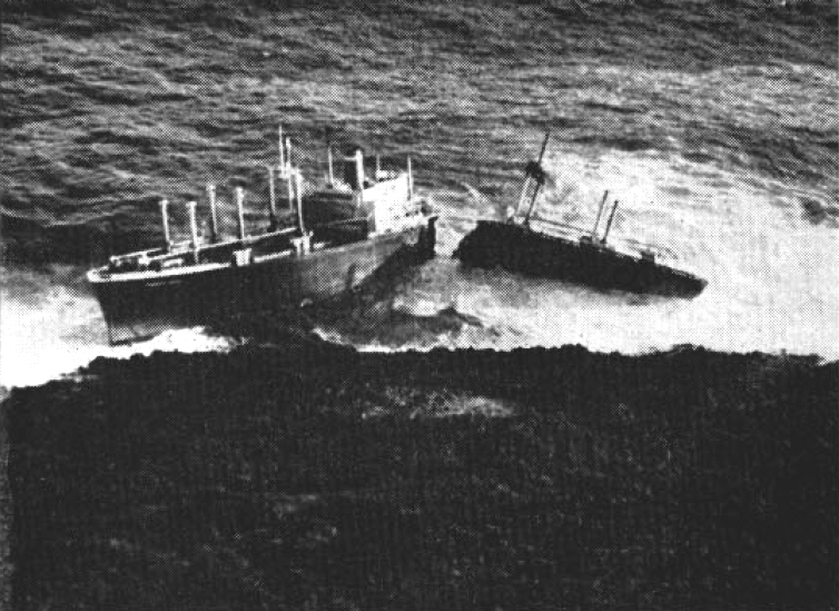 The U.S. Lines merchant ship SS Pioneer Muse foundered on Kitadaitōjima. The ship stranded during Typhoon Violet in October 1961. The crew of 57 was rescued by the attack cargo ship USS Tulare (AKA-112) and the helicopter carrier USS Princeton (LPH-5) on 8 October 1961, together with 27 crew from the 7.300 ton Lebanase merchant ship SS Sheik which had stranded a week before Pioneer Muse during Typhoon Tilda. Kitadaitōjima is the northernmost island in the Daitō Islands group, located in the Philippine Sea southeast of Okinawa, Japan. After World War II, the island was occupied by the United States. The use of increased mechanization increased phosphate yields marginally until the deposits were exhausted by the mid-1950s. The island was uninhabited at the time of the shipwrecks until it was returned to Japan in 1972.